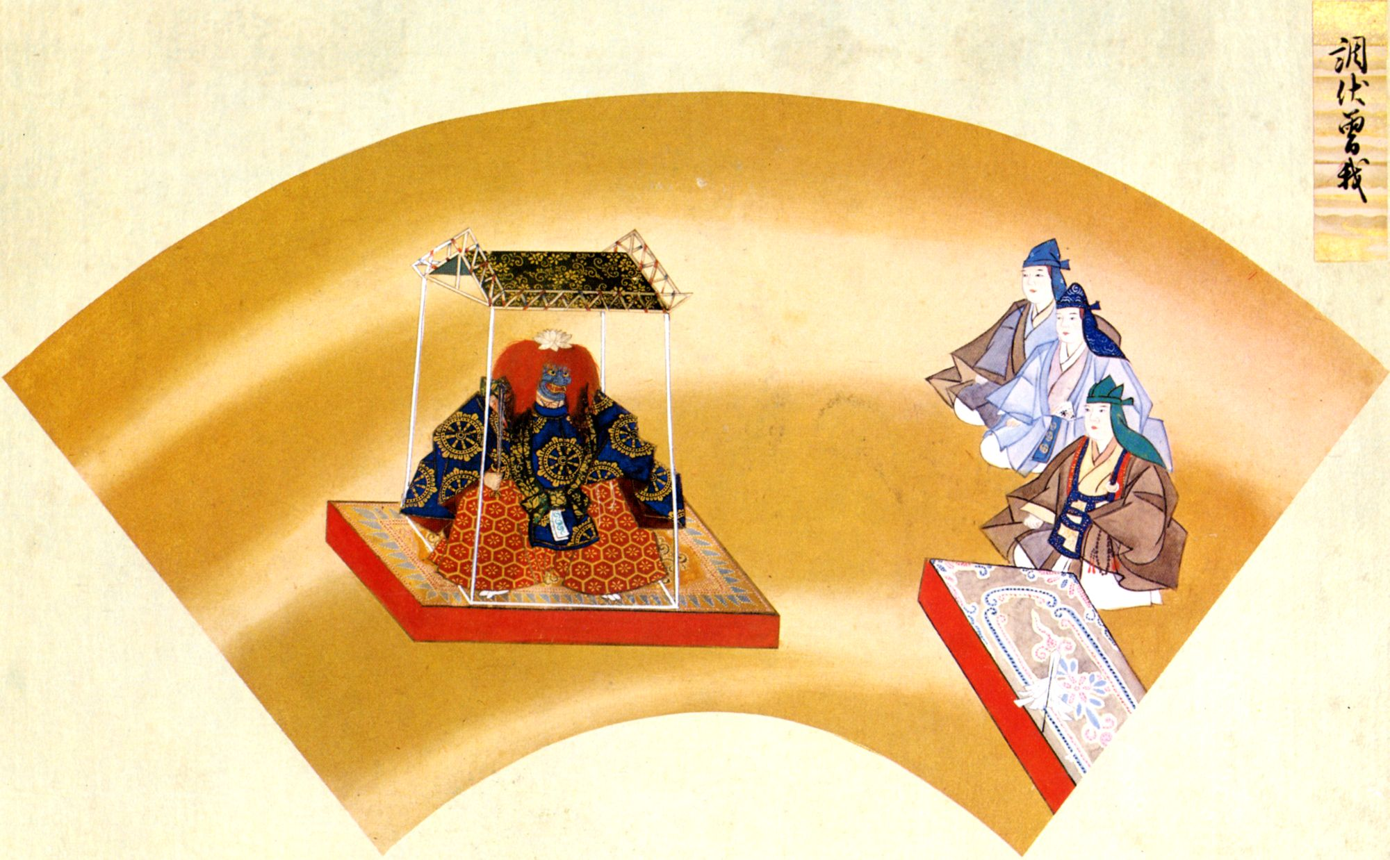 Noh - Chobukusoga